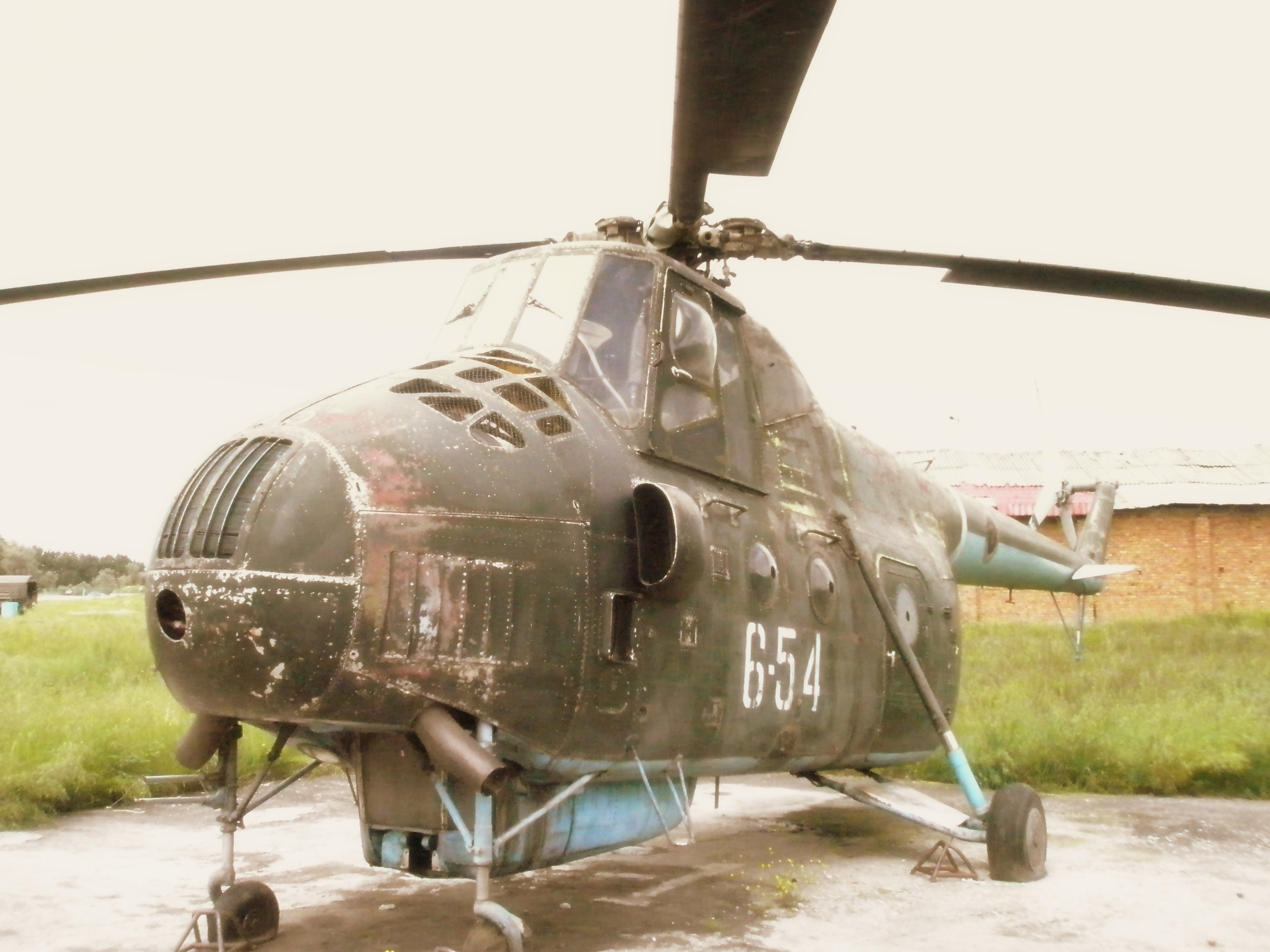 Once the "mule" of the regiment, the Chinese Z-5.